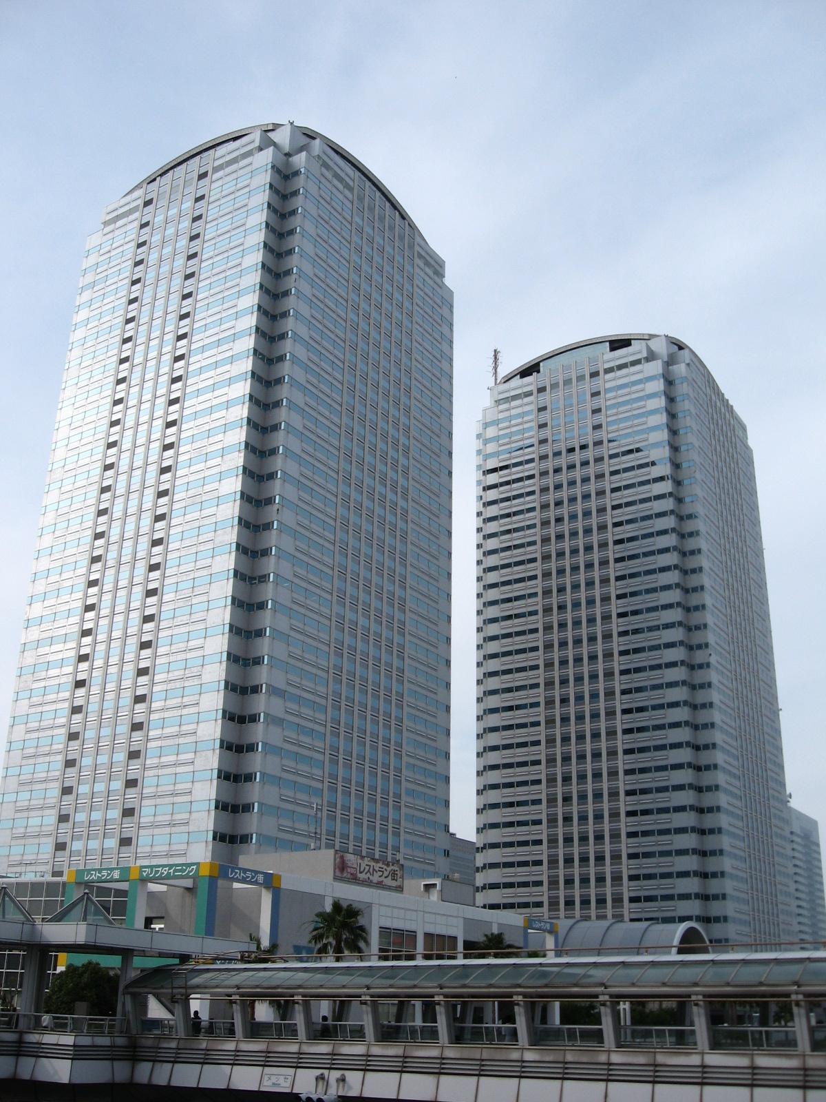 World Business Garden Buildings in Makuhari, Chiba.